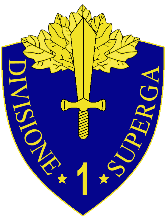 1a Divisione Fanteria Superga insignia, Regio Esercito, Italy, WWII